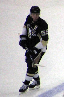 Picture of Sergei Gonchar during a preseason game on Friday, September 28, en:2007 against the Buffalo Sabers